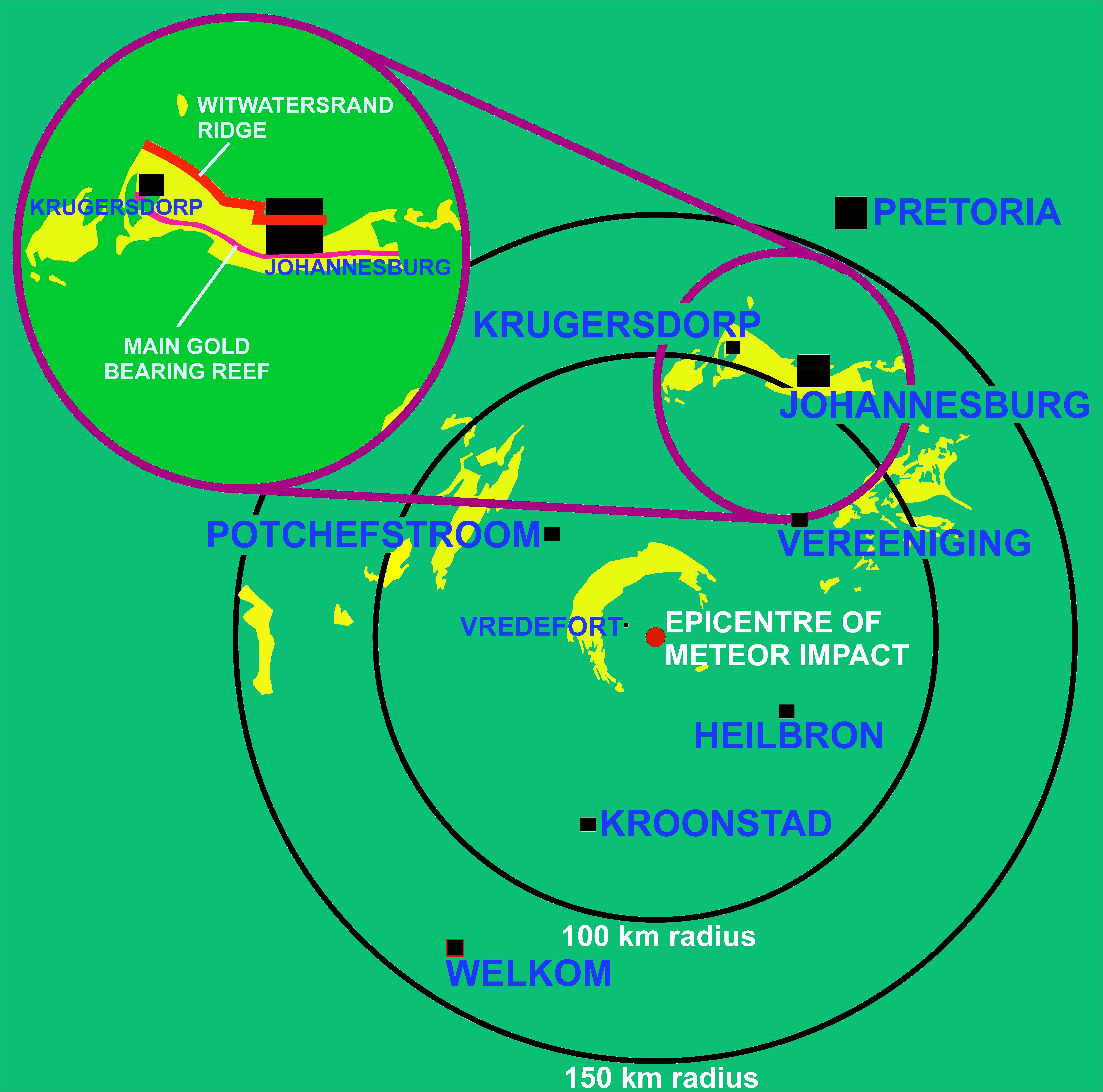 The outcrops of the Witwatersrand Supergroup (yellow) centered around the Vredefort Dome, with a detail of the outcrop on which Johannesburg is situated. The red line indicates the Witwatersrand ridge that gave its name to the area and its rocks. The main gold bearing reef to the south of Johannesburg is indicated by the purple line